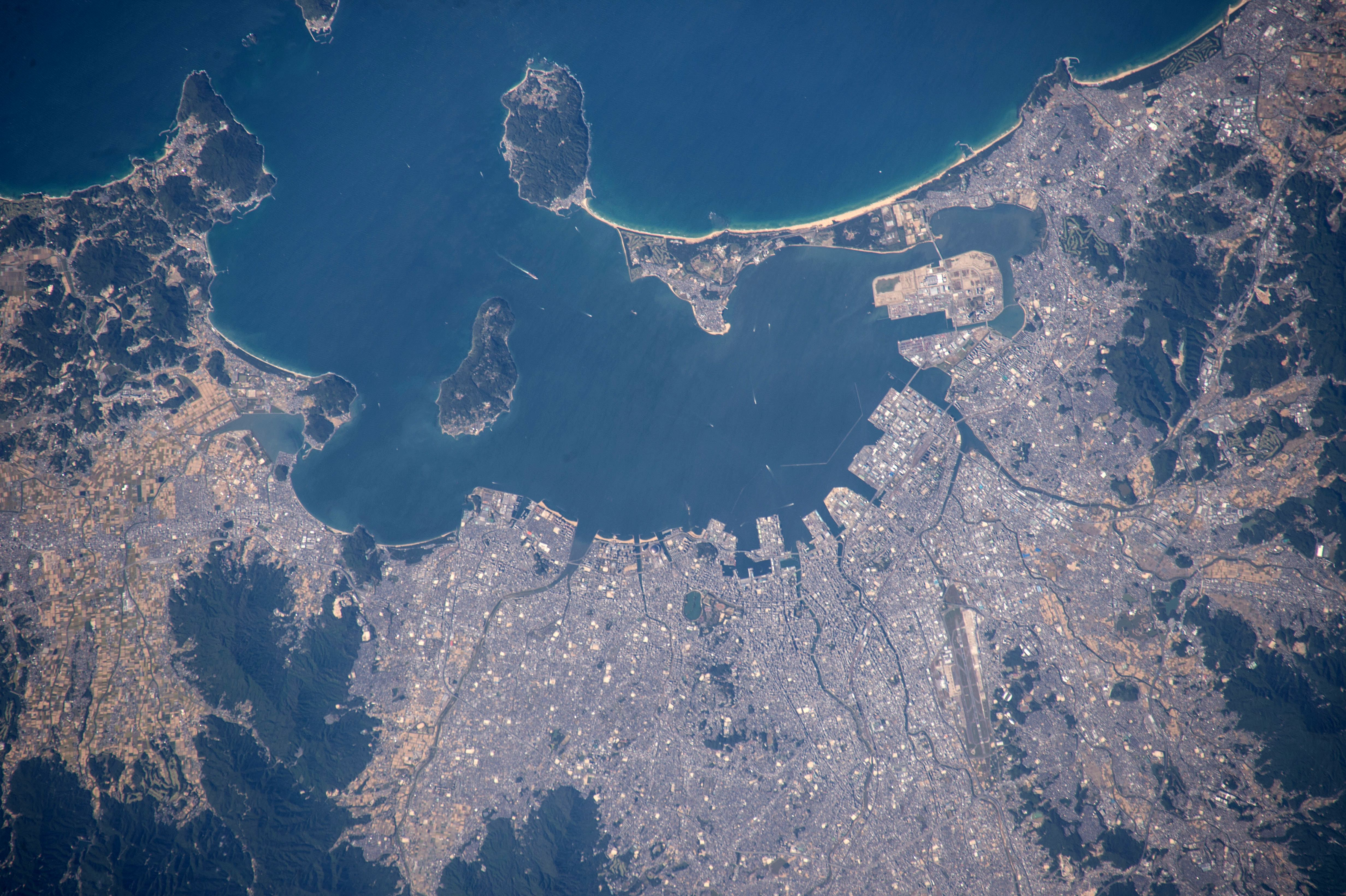 The satellite picture of Fukuoka city, Fukuoka prefecture, Japan.